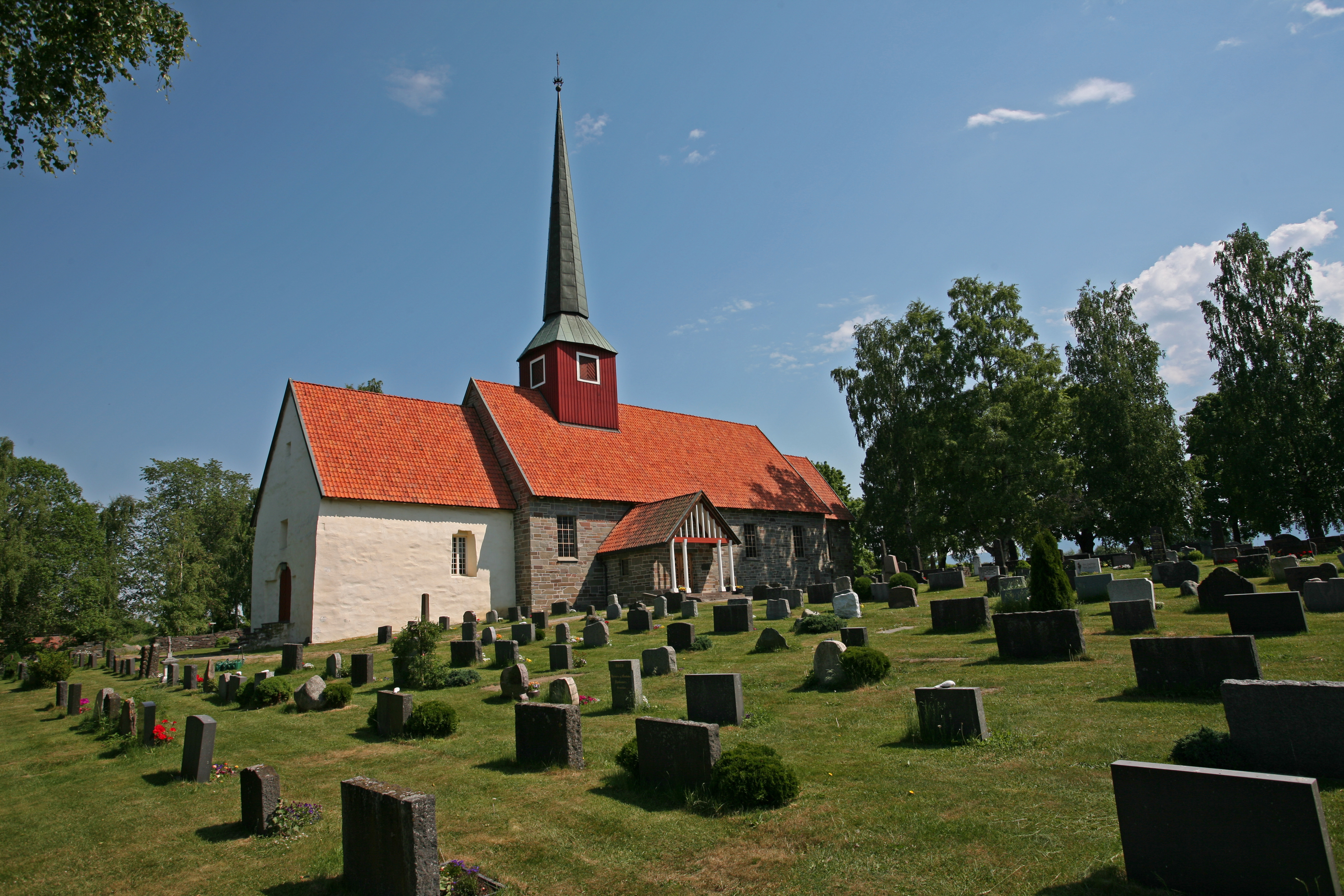 Picture of Hole church (Buskerud - Norway)